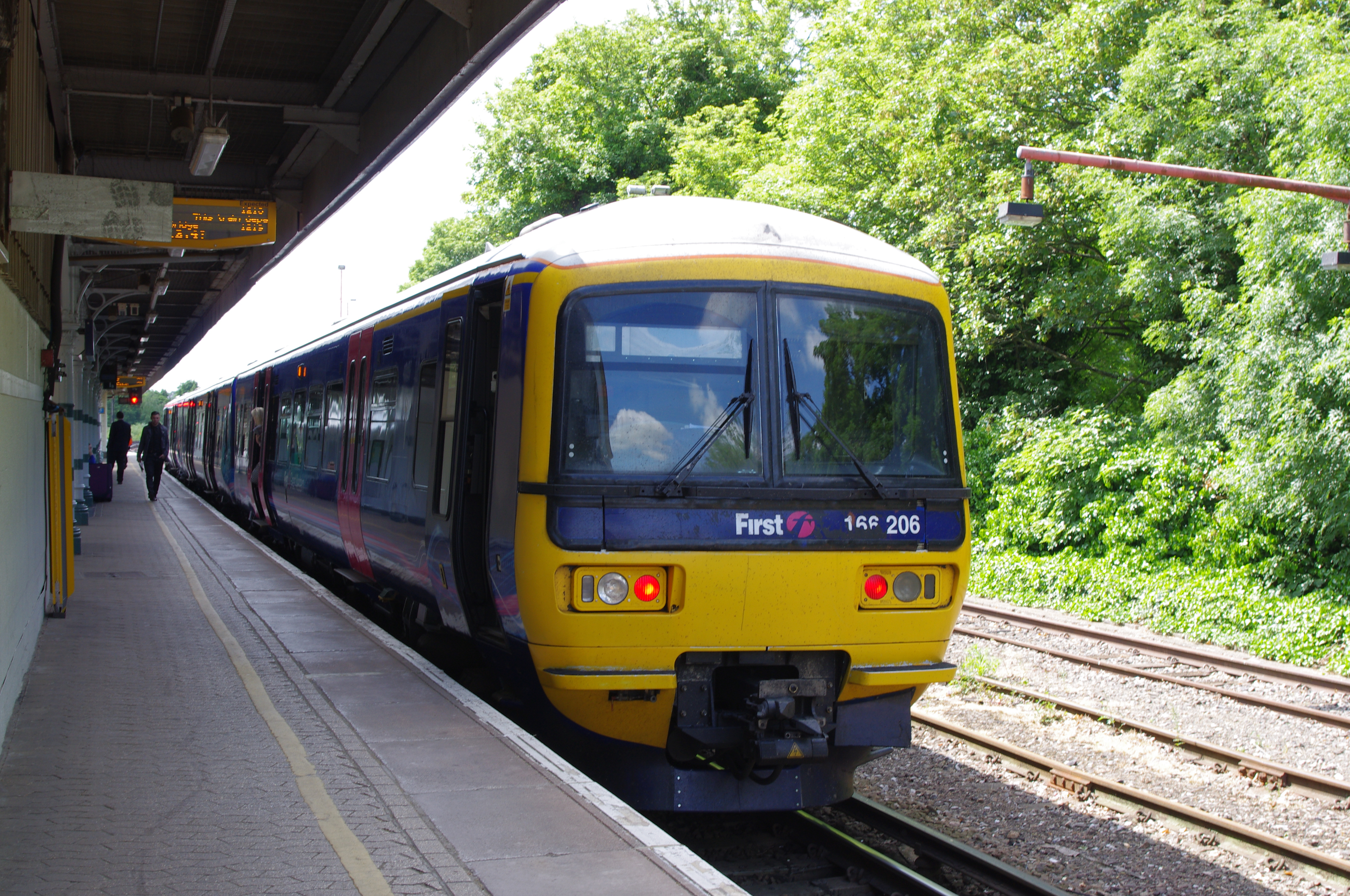 166206 stands at Redhill on a service to Reading.